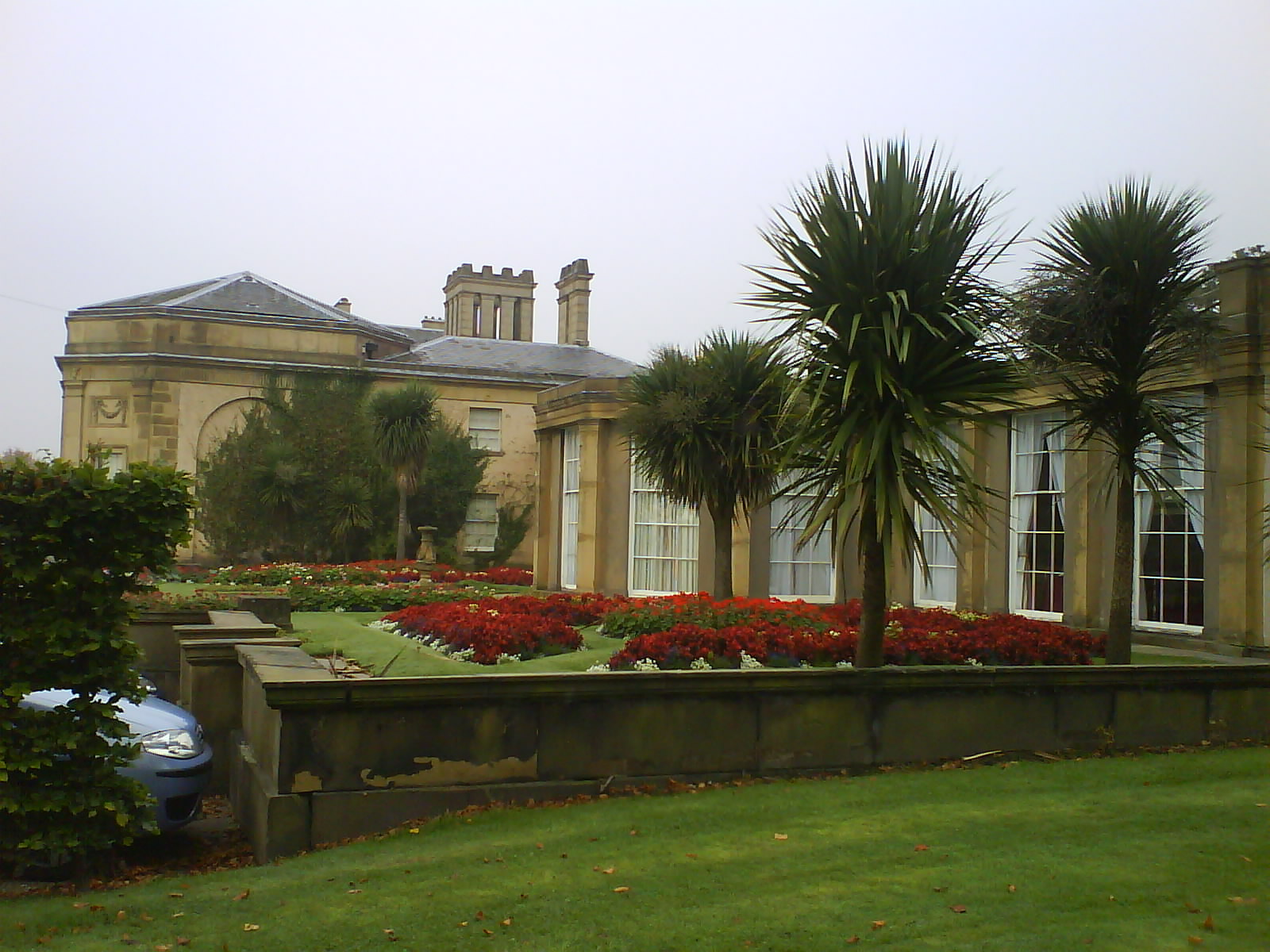 The Orangery and Gardens of Heaton Hall in Heaton Park